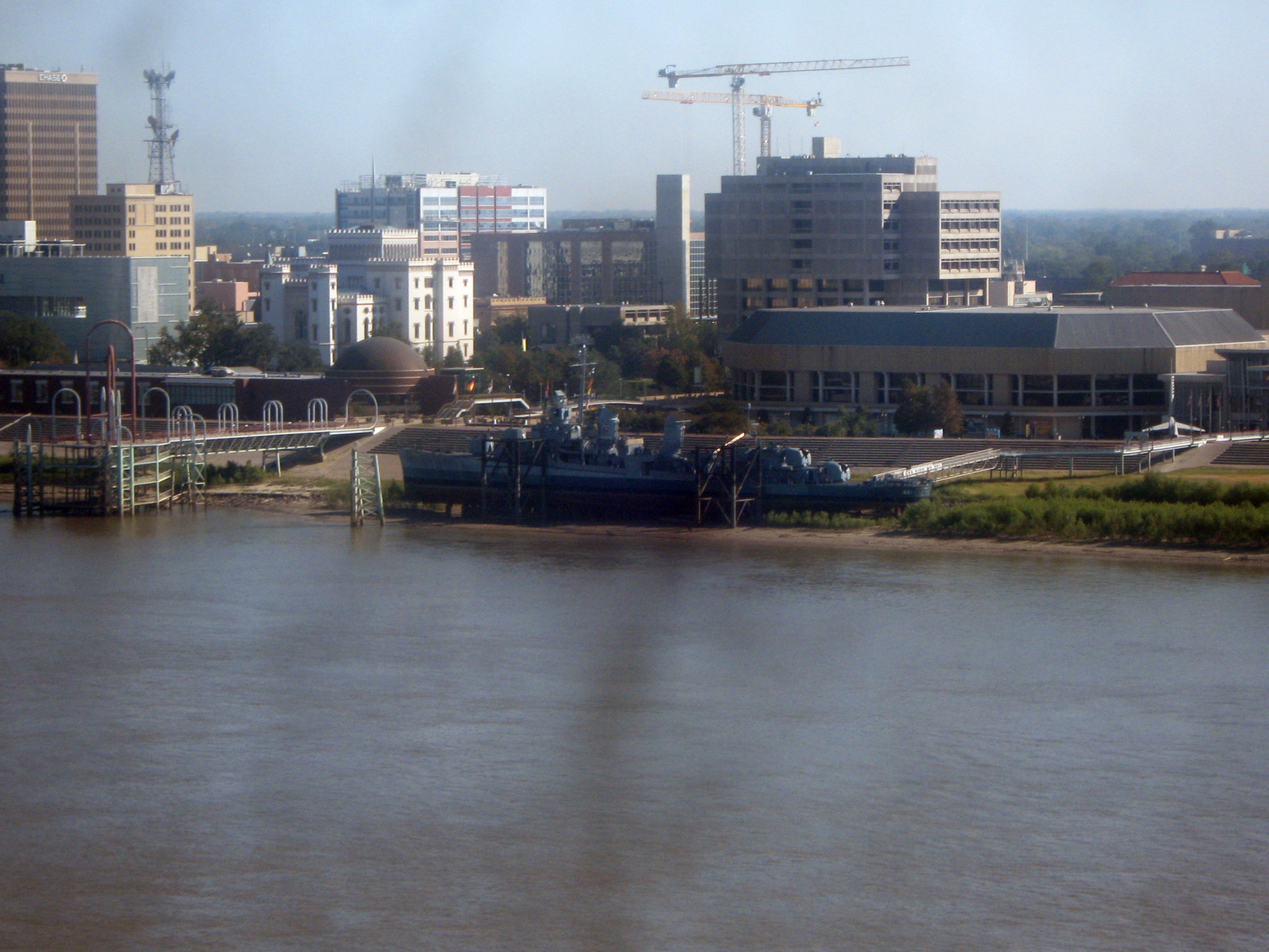 The former U.S. Navy Fletcher-class destroyer USS Kidd (DD-661) resting on dry-dock at Baton Rouge, Louisiana (USA).